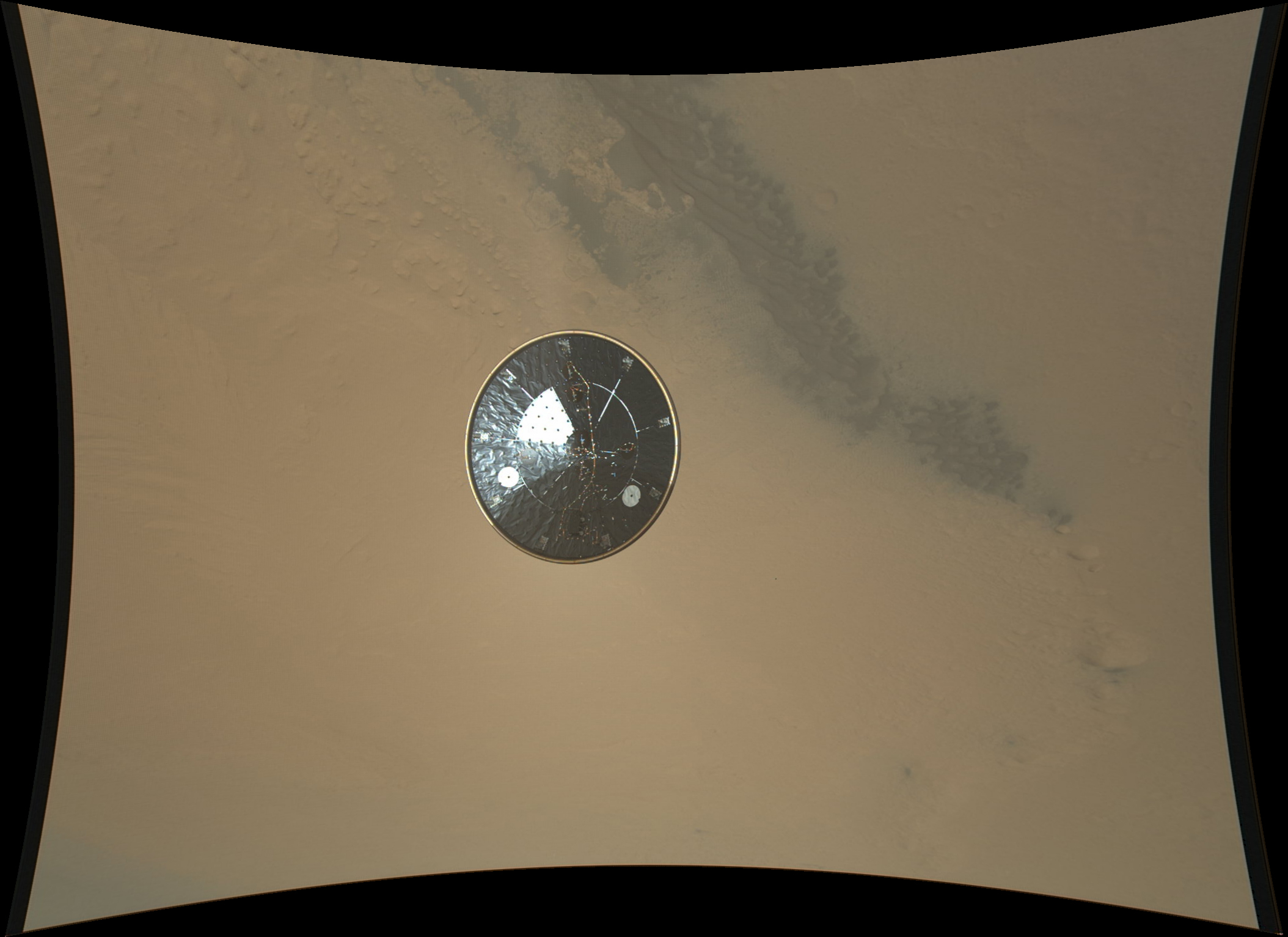 "Curiosity's Heat Shield in Detail", photo by NASA/JPL. Obtained at Aug. 5 (PDT), 2012 with Mars Descent Imager camera (MARDI) installed on bottom of Mars_Science_Laboratory Curiosity. The 15-foot (4.5-meter) diameter heat shield is shown 3 seconds after separation from the descent Capsule, when it was about 50 feet (16 meters) from the spacecraft. Spatial scale of image is 0.4 inches (1 cm) per pixel. It is the 36th MARDI image. The original image from MARDI has been geometrically corrected to look flat.